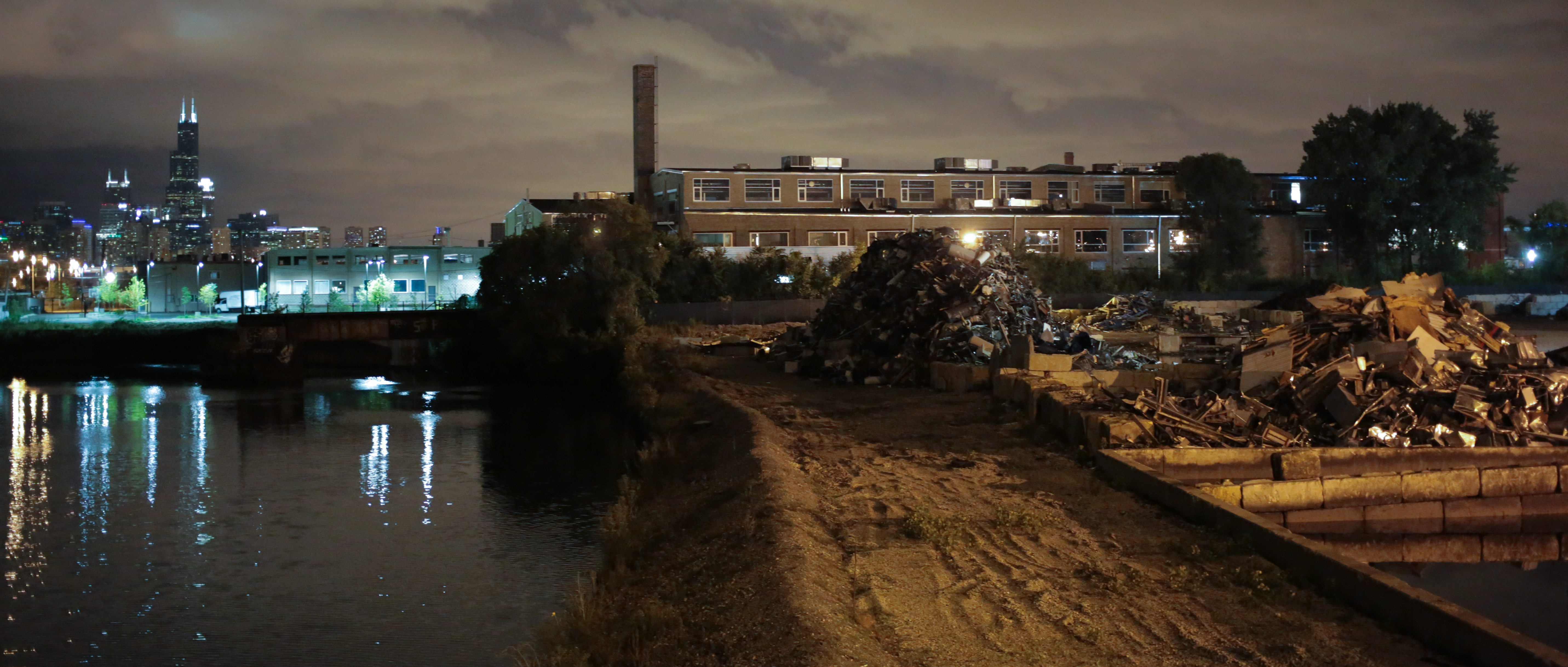 Chicago skyline and recycling center Photo Walk Chicago September 2, 2013-4933